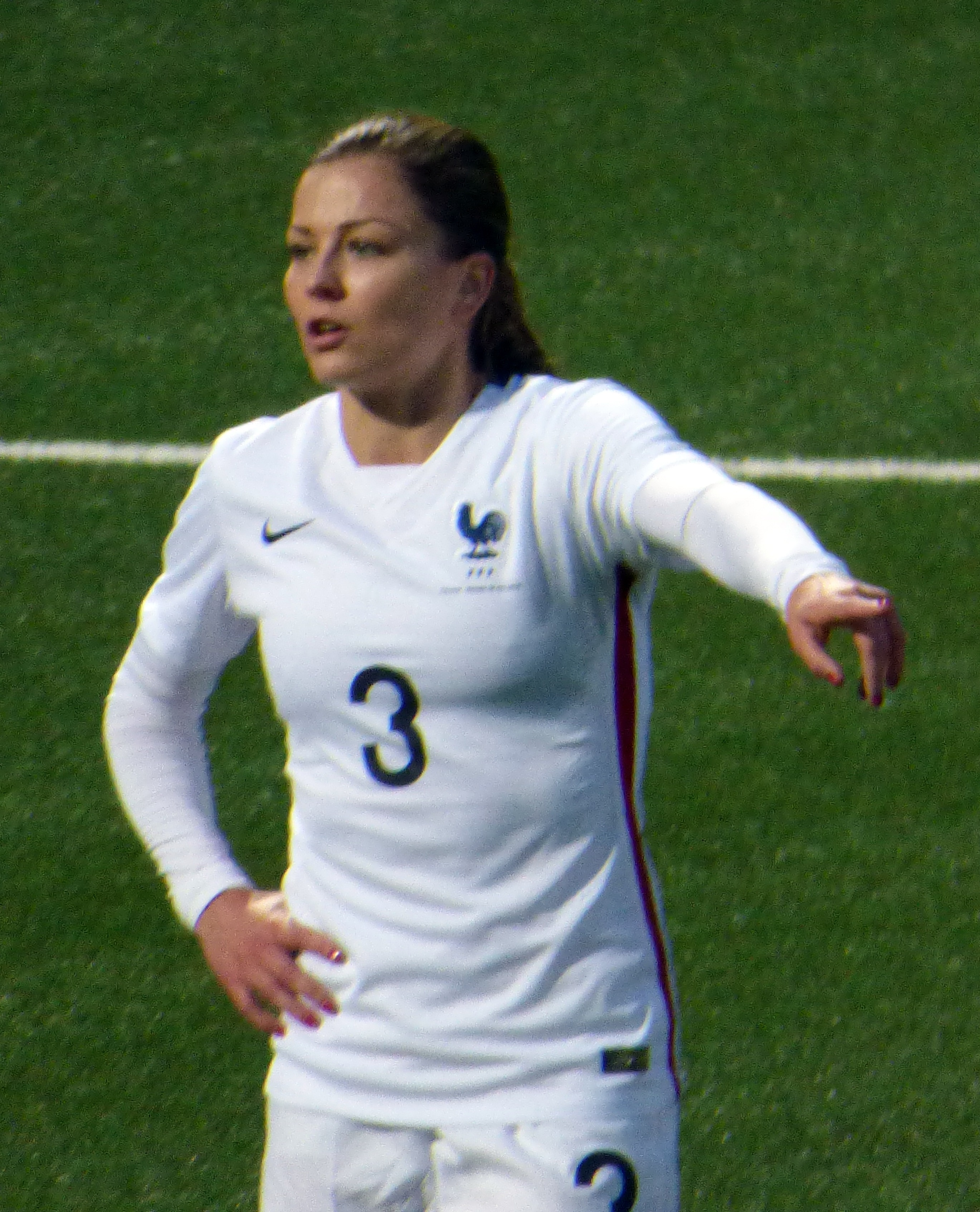 Laure Boulleau during the match France-Scotland (2015-5-28)